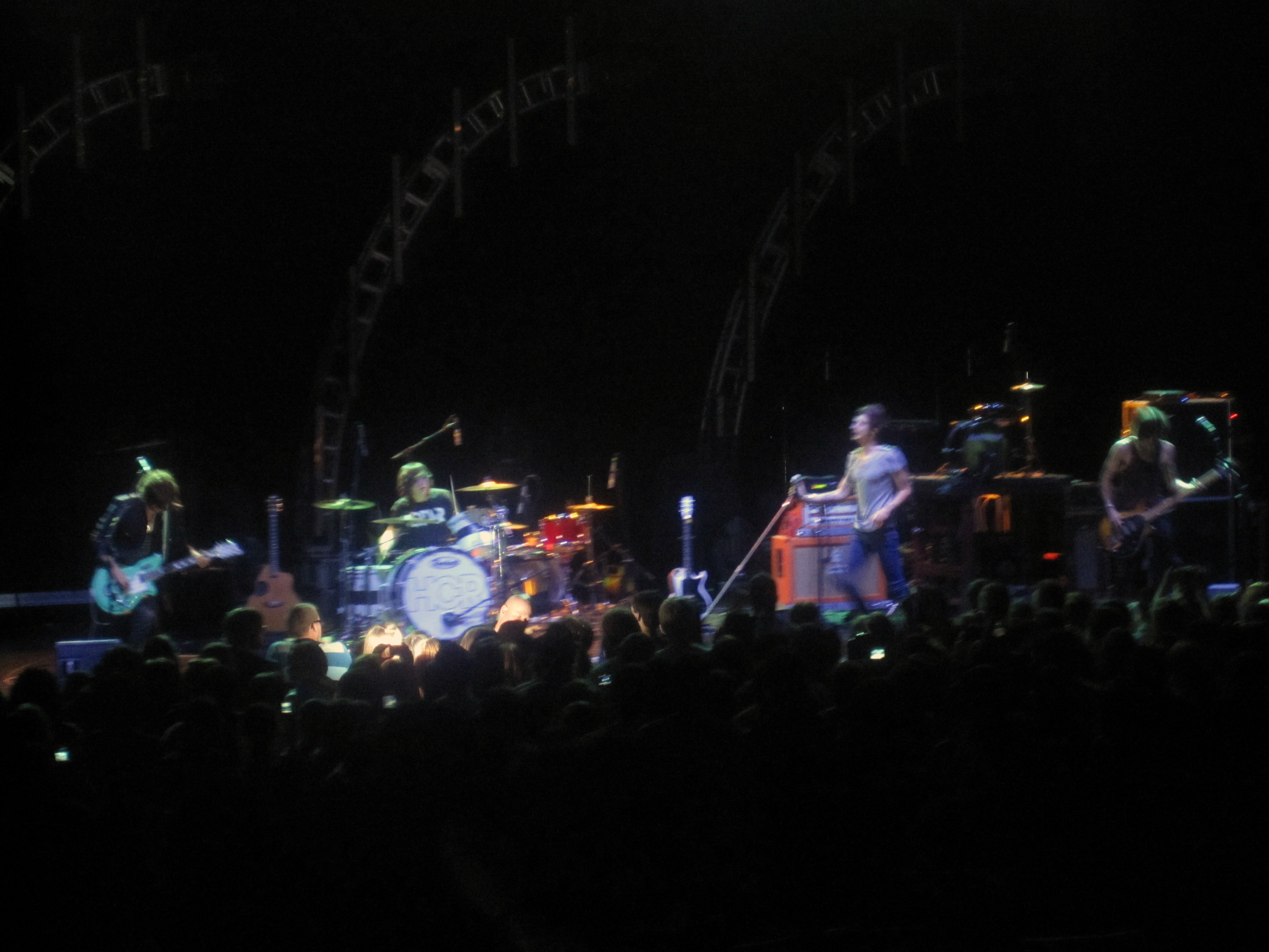 Hot Chelle Rae in concert.